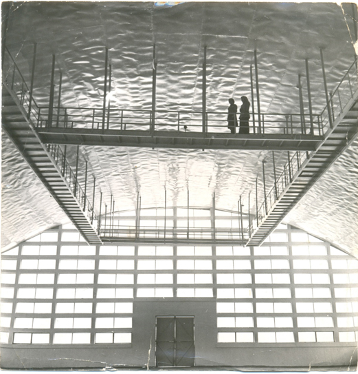 Hidrotexniki laboratoriya